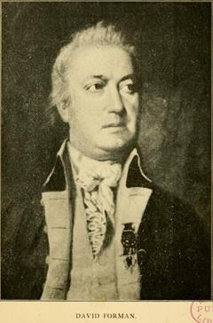 Crayon drawing of David Forman (1745-1797) by James Sharples.